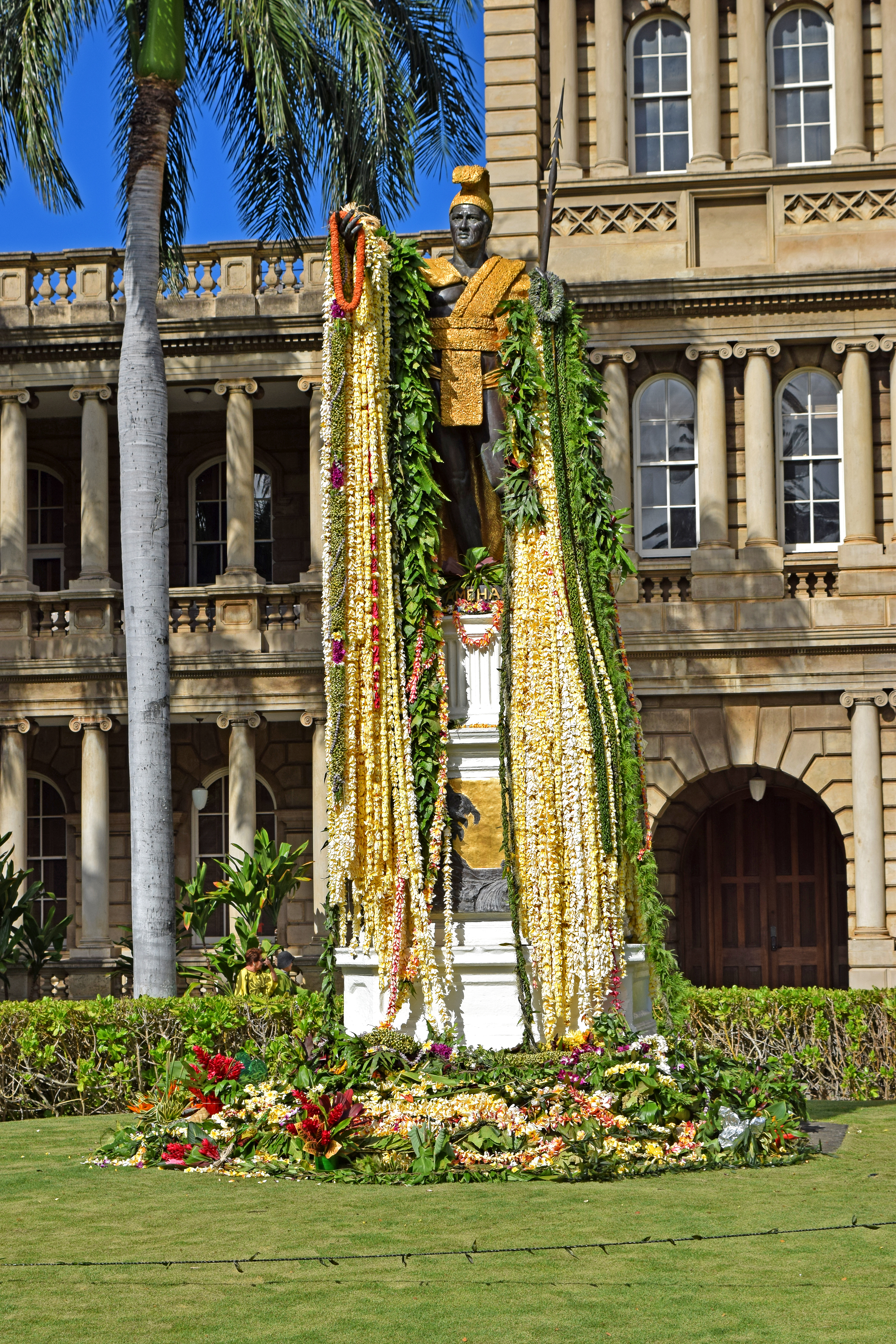 Kamehameha Day draped statue 2016